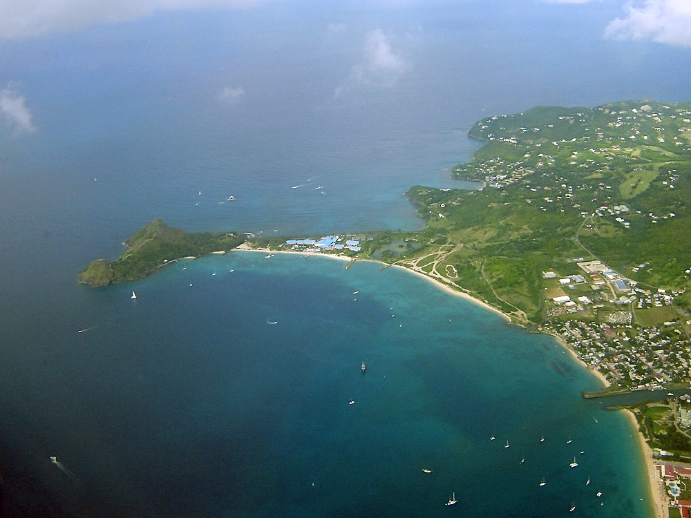 Pigeon point, Saint Lucia, Caribbean Sea. Formerly an island, Pigeon point was connected to the mainland during the 1970s.